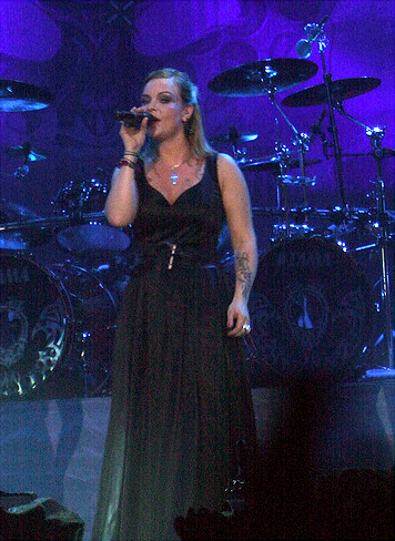 Swedish singer Anette Olzon live with Nightwish at at Helsinki Hartwall Areena on September 19, 2009